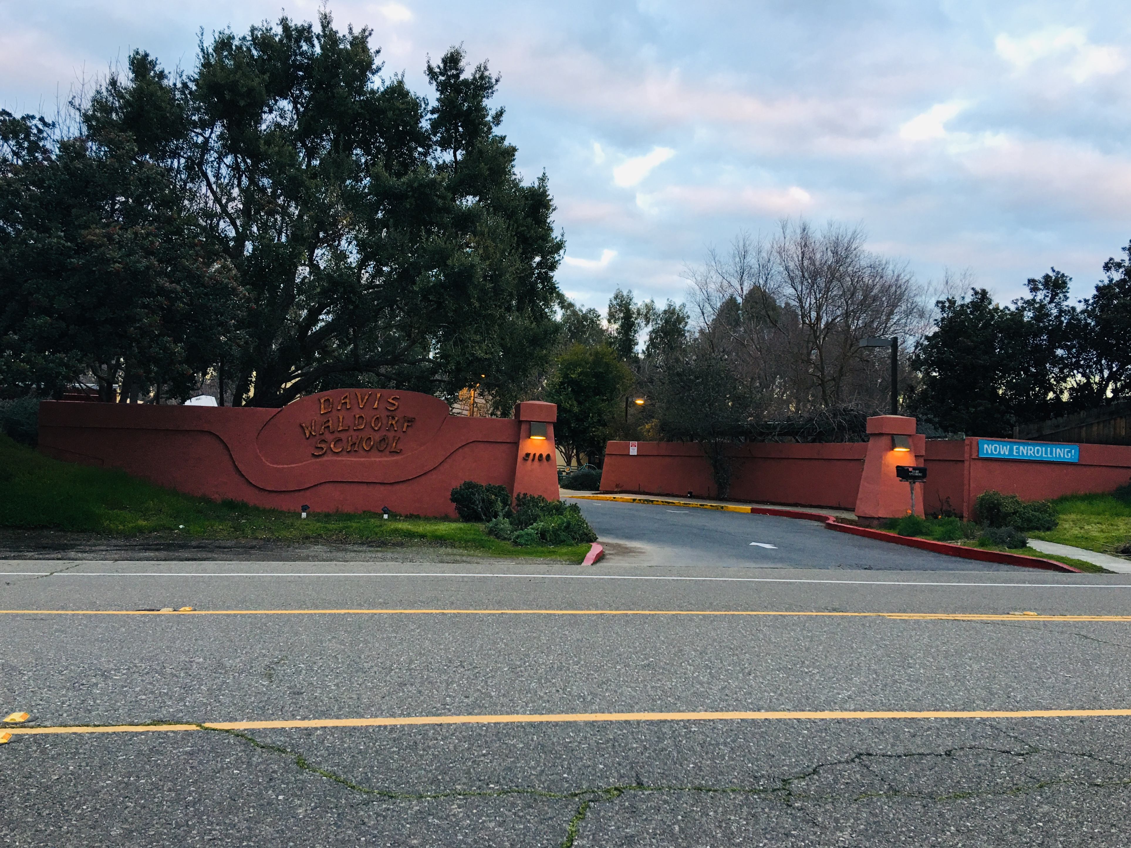 Main front sign of Davis Waldorf School on the left, vehicular entrance to the school on the right